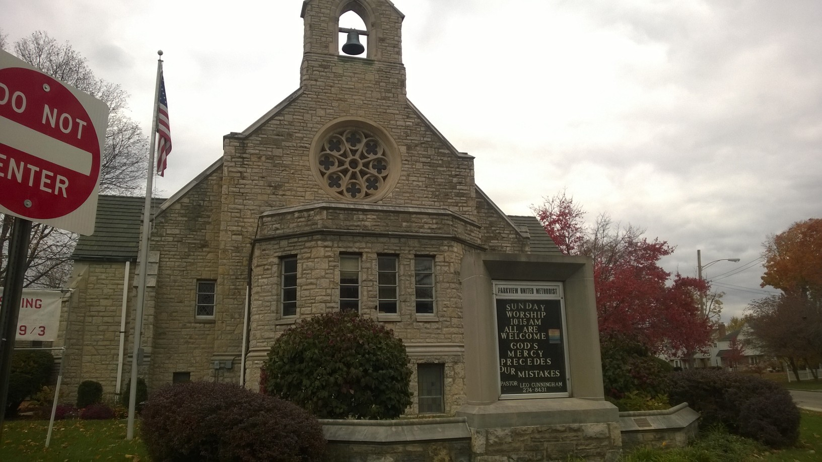 Parkview United Methodist Church, Westgate, Columbus, OH